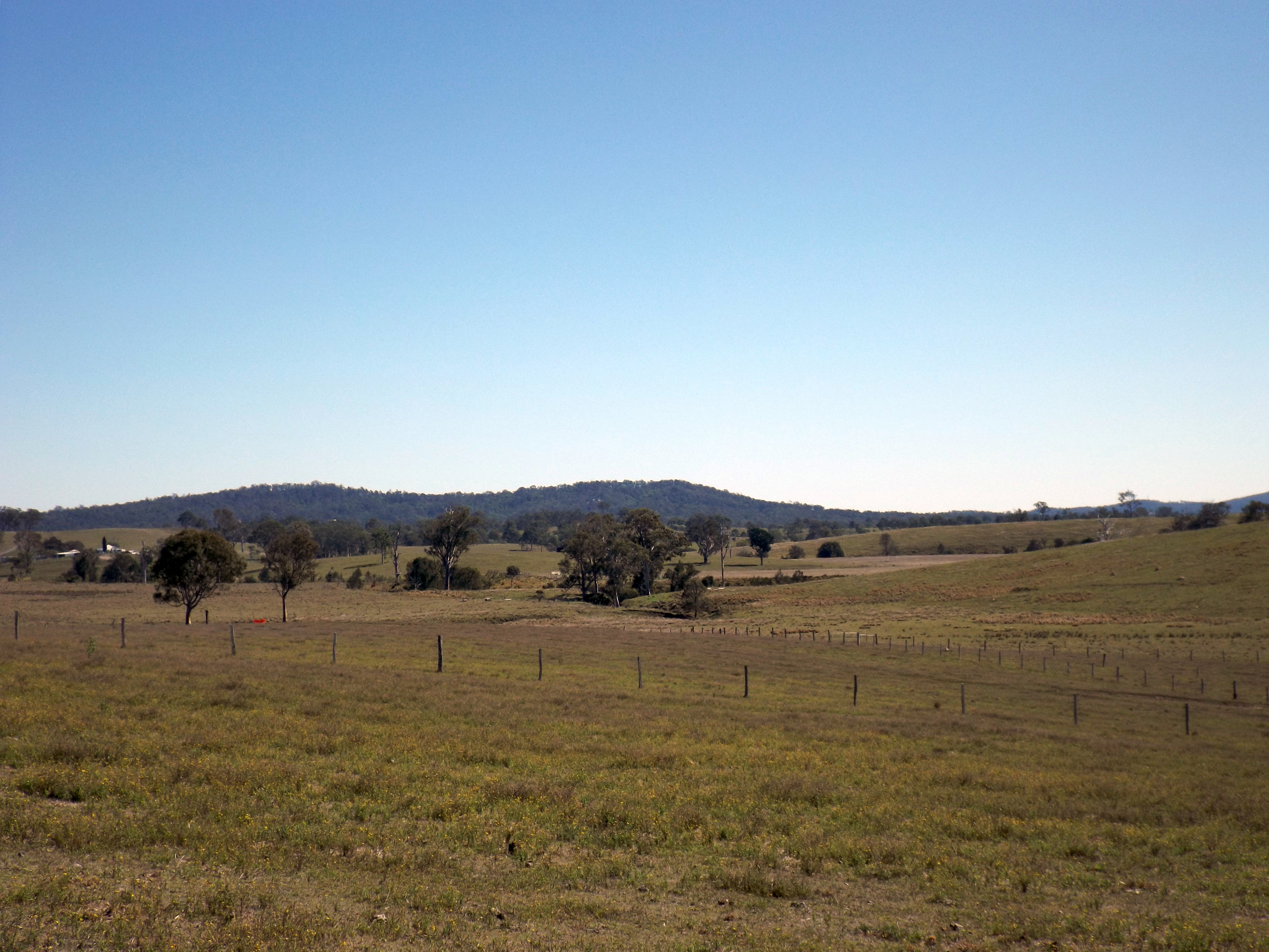 Photo of paddocks at Boyland, Scenic Rim Region, Queensland, Australia.